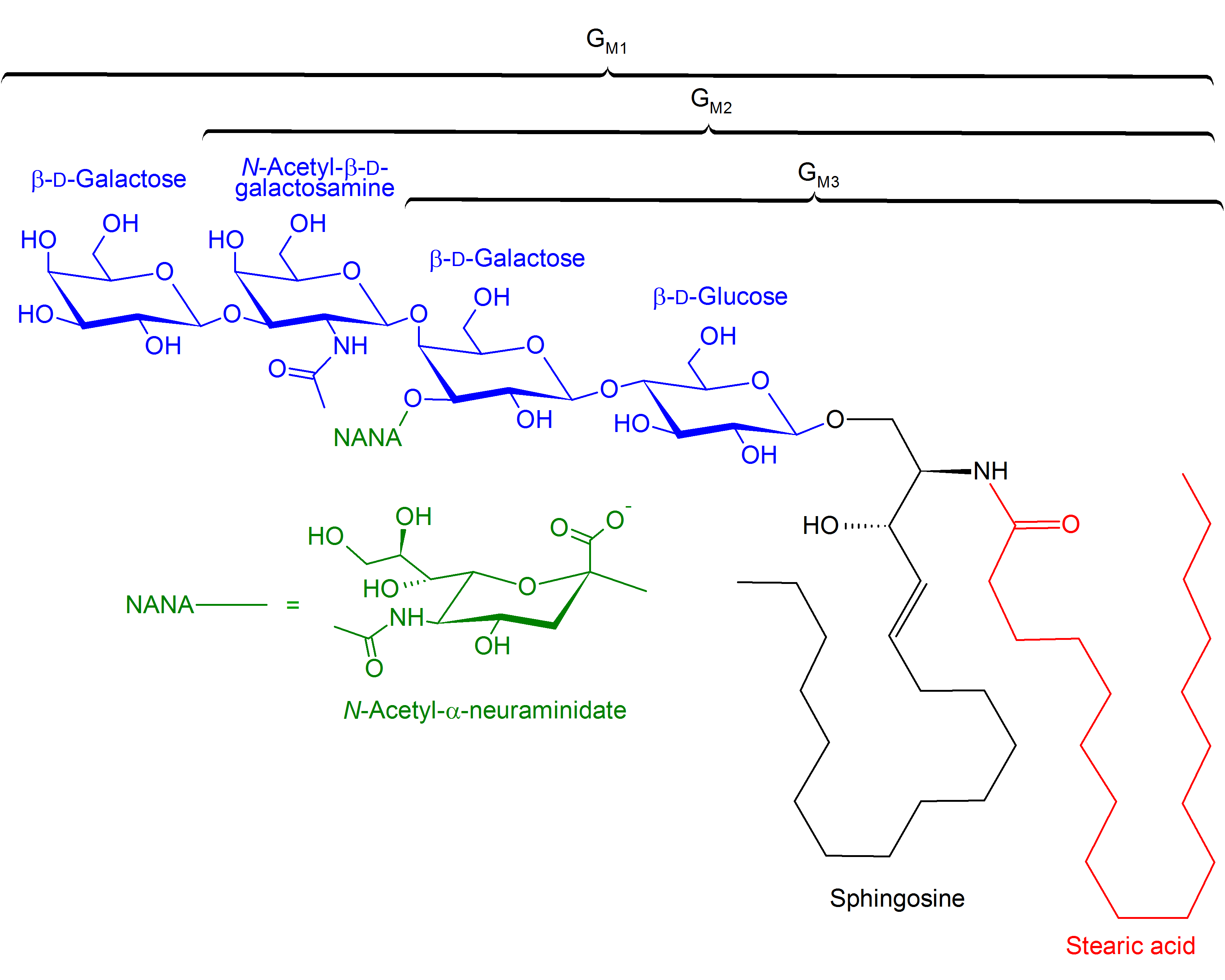 Structure of GM1, GM2, GM3, referenced from Principles of Biochemistry, 3rd Edition, by Donald Voet, Judith Voet and Charlotte Pratt, p.253